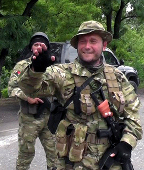 Dmytro Yarosh, Karlivka Village vicinity, Donetsk region, July 7, 2014.